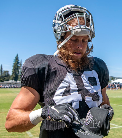 James Cowser in 2019 (cropped using scissor tool)